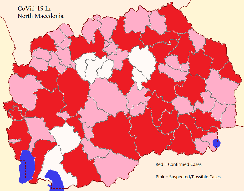 Red = Confirmed Cases Pink = Suspected/Possible Cases